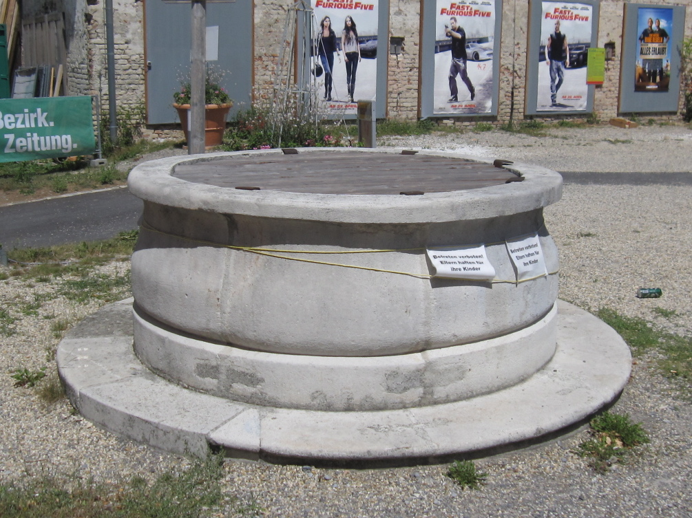 Stone well on the grounds of Neugebäude Palace in Vienna.